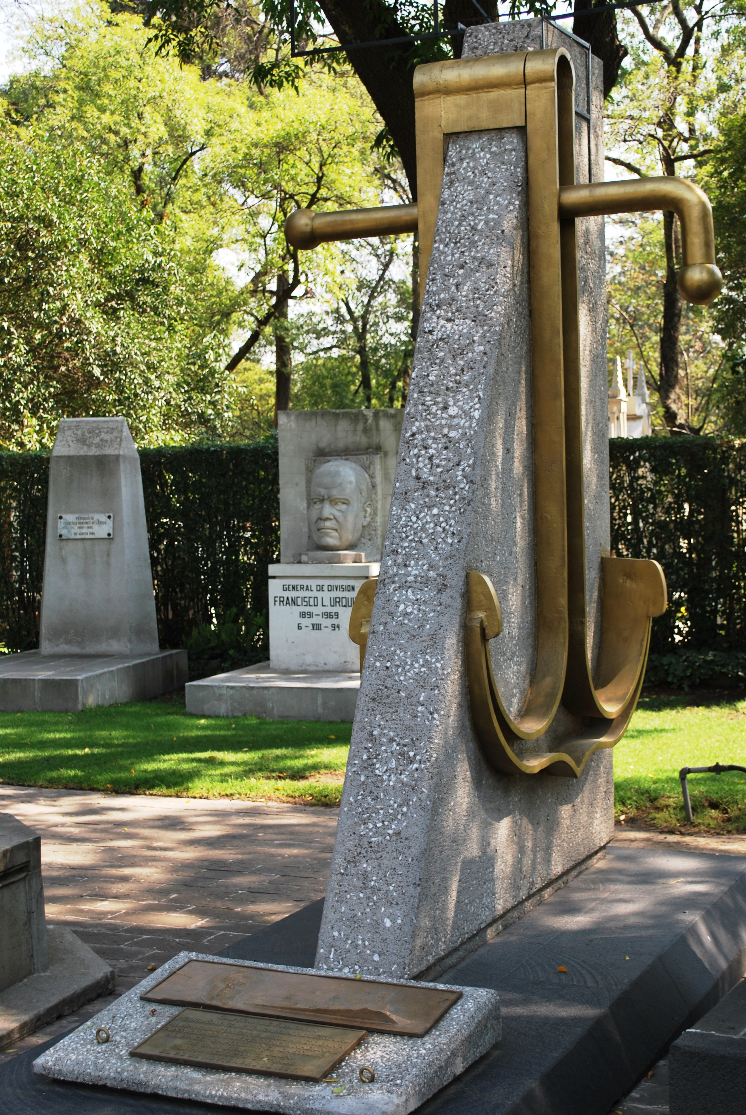 Tomb of Capt Pedro Sainz de Baranda y Borreyro in the Panteon Civil de Dolores cemetery in Mexico City